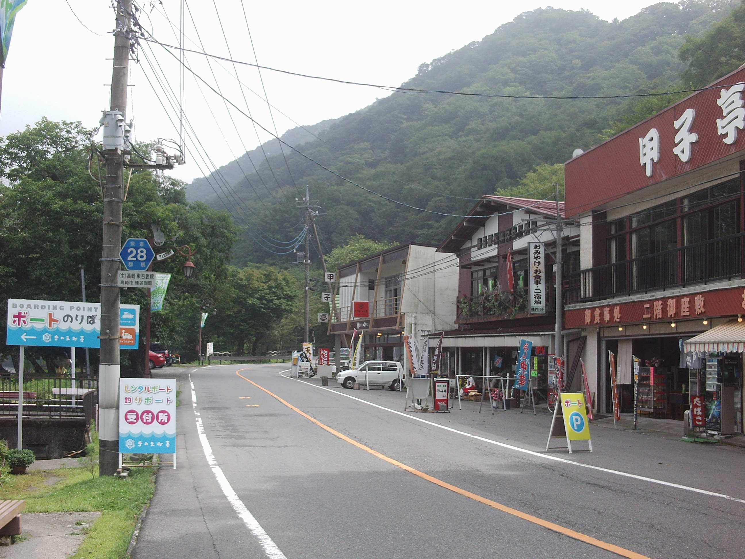 Gunma prefectural road No.28 in Harunako-machi, Takasaki, Gunma.